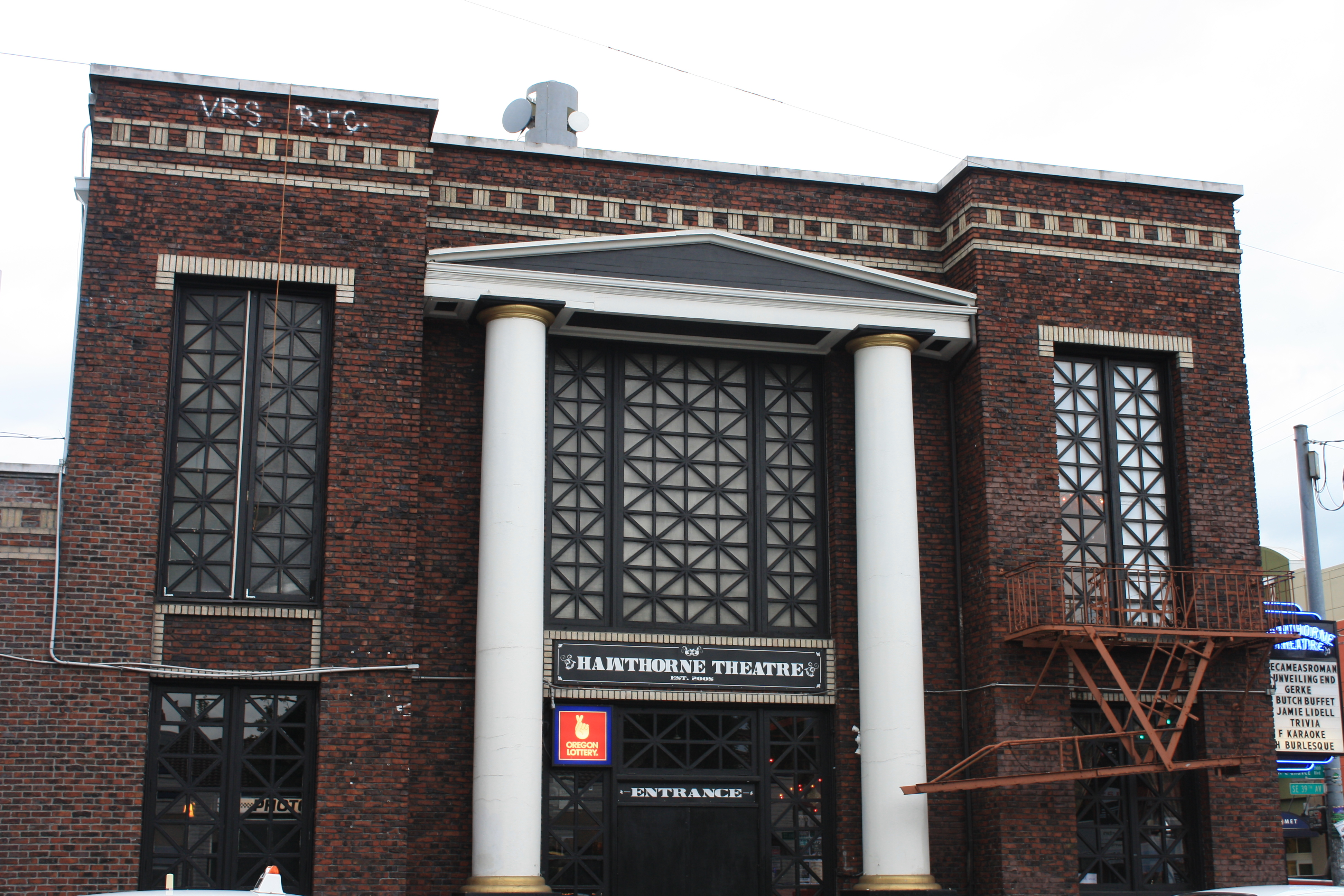 Hawthorne Theatre in southeast Portland, Oregon in 2010